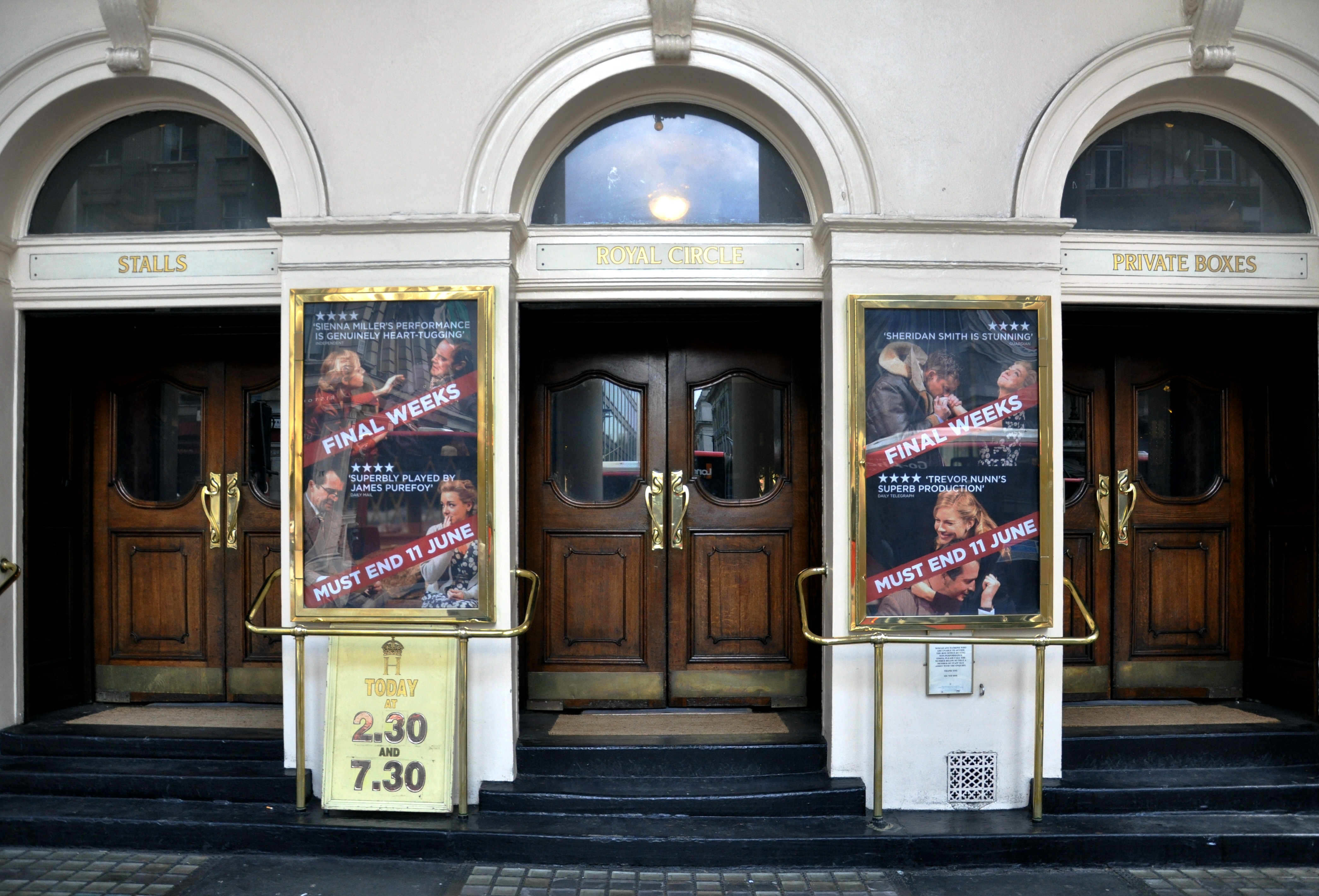 London, Haymarket Theatre Royal, entrance doors